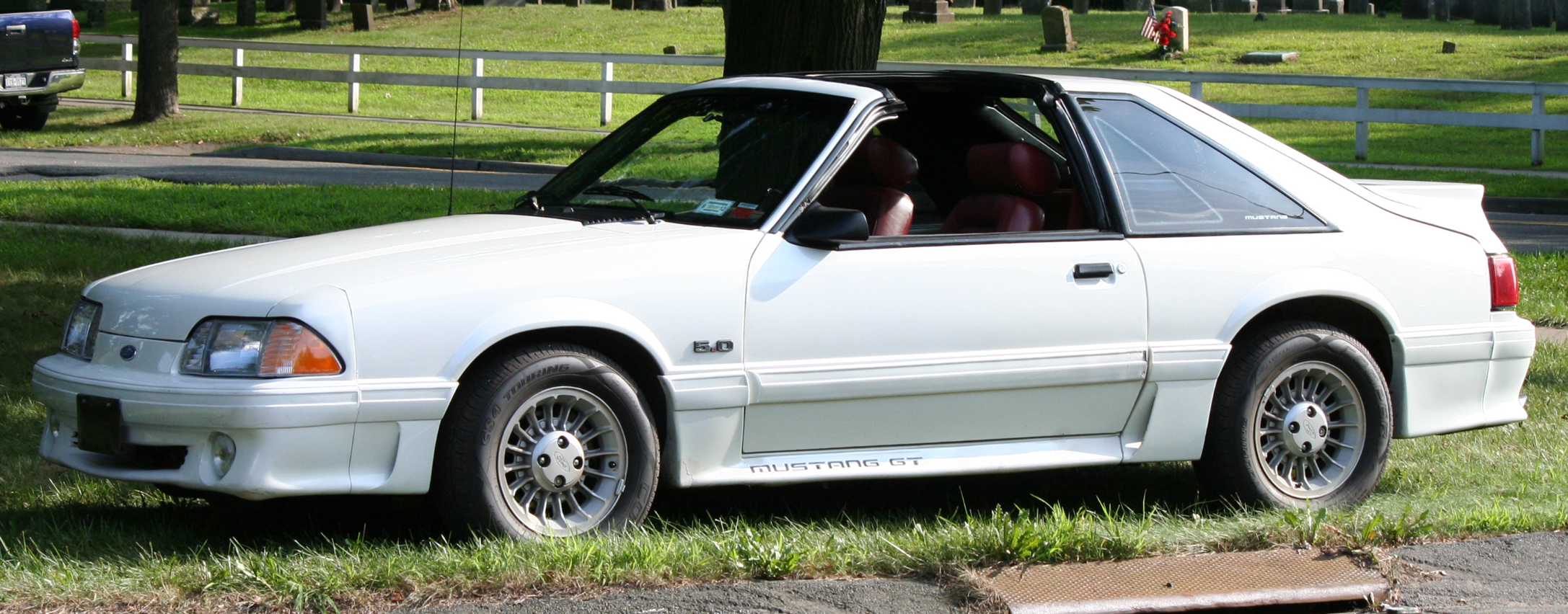 1987-1988 Ford Mustang 5.0, comparatively rare T-top version